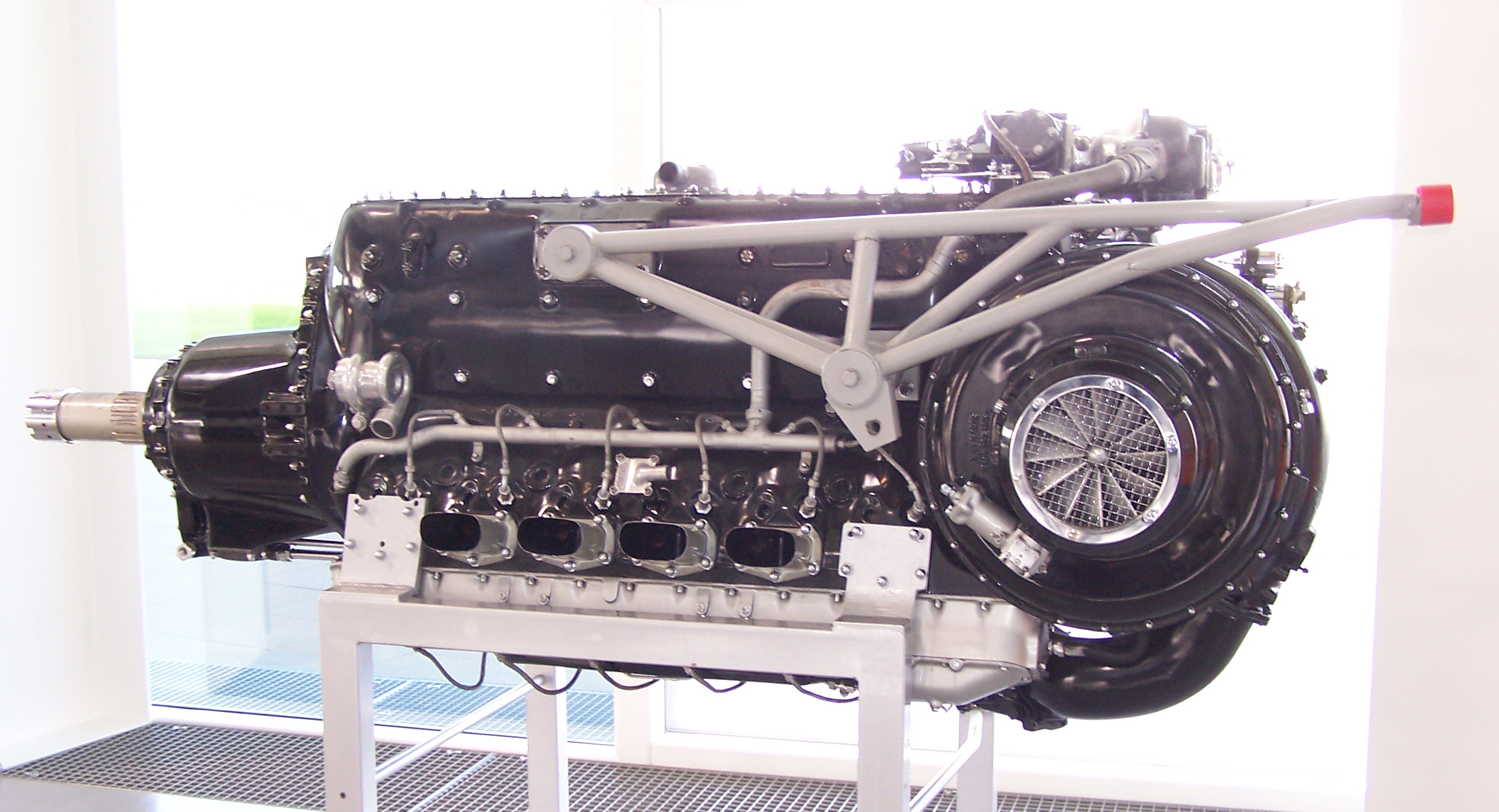 DB 603 at Dornier Museum